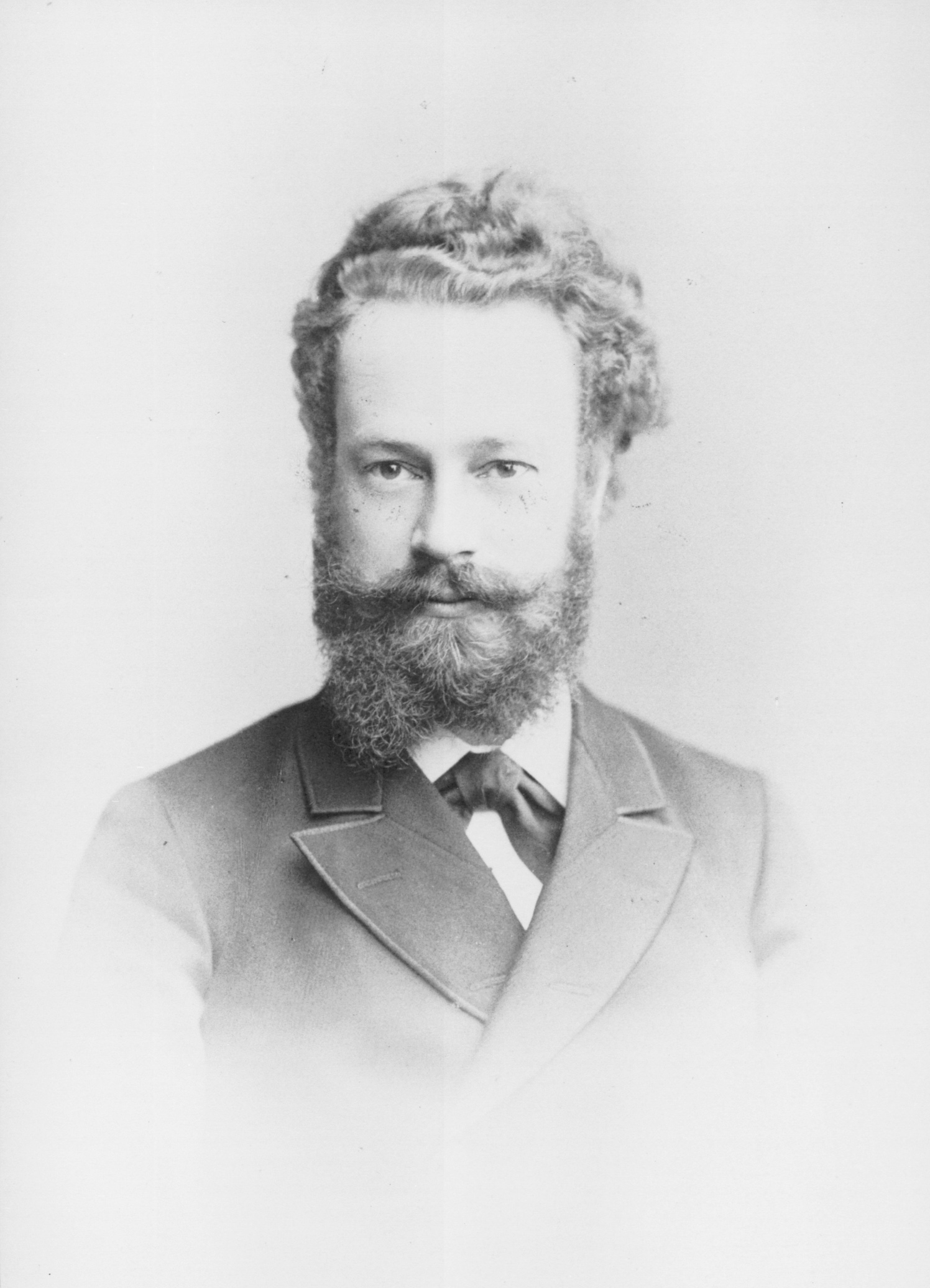 German conductor and composer of Dutch origin Willem de Haan (1849-1930)